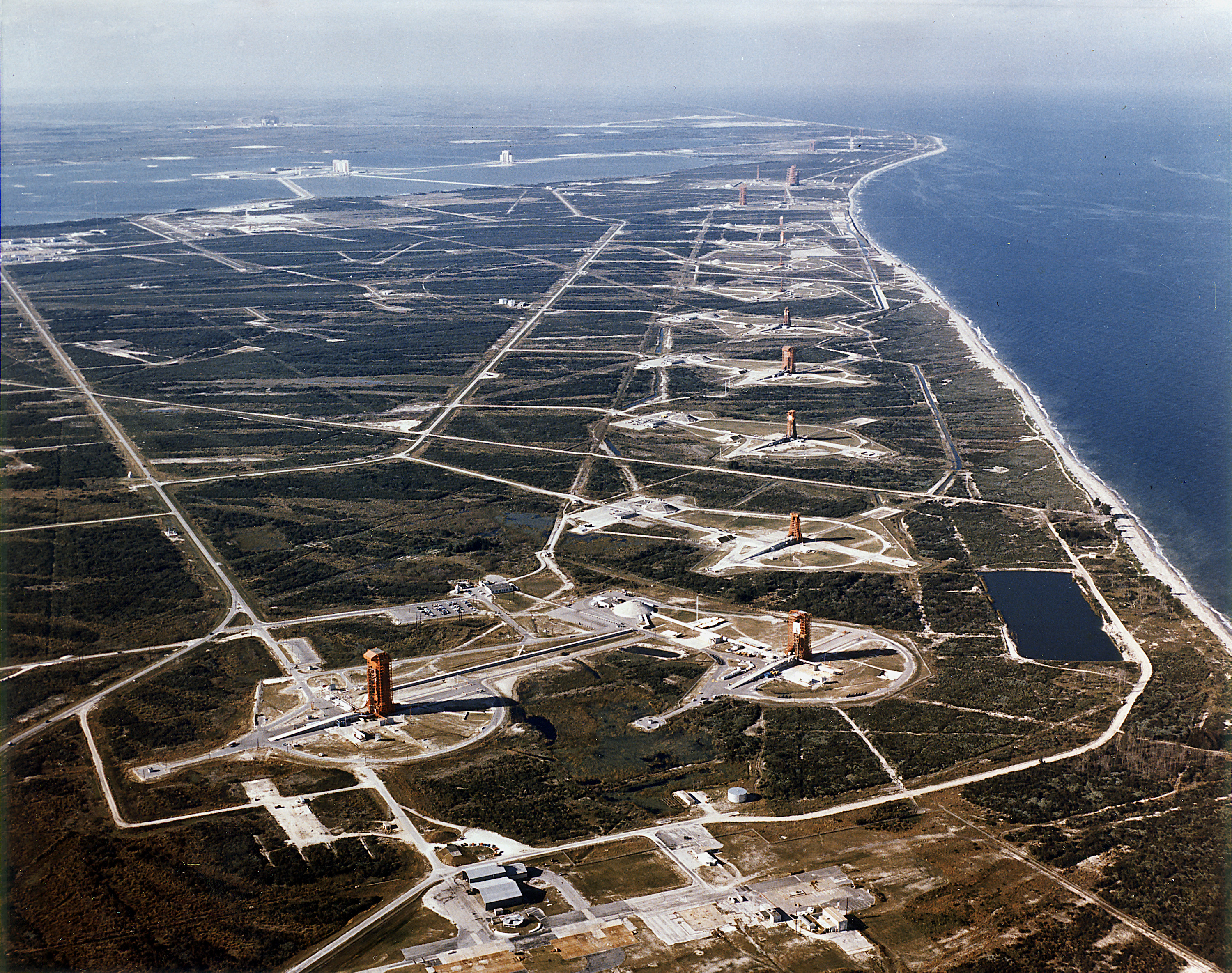 Overall aerial view of Missile Row, Cape Canaveral Air Force Station. The view is looking north, with the Vehicle Assembly Building (VAB) under construction, in the upper left hand corner.